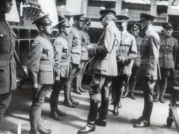 This image is a digitized photograph of MRAF Trenchard inspecting apprentices during a passing out parade at Groves and Henderson Barracks at RAF Halton. The web page from where this image was taken bore the copyright notice: © UK Crown copyright 2008. As this photograph is covered by Crown Copyright and is over 50 years old it is now in the public domain.